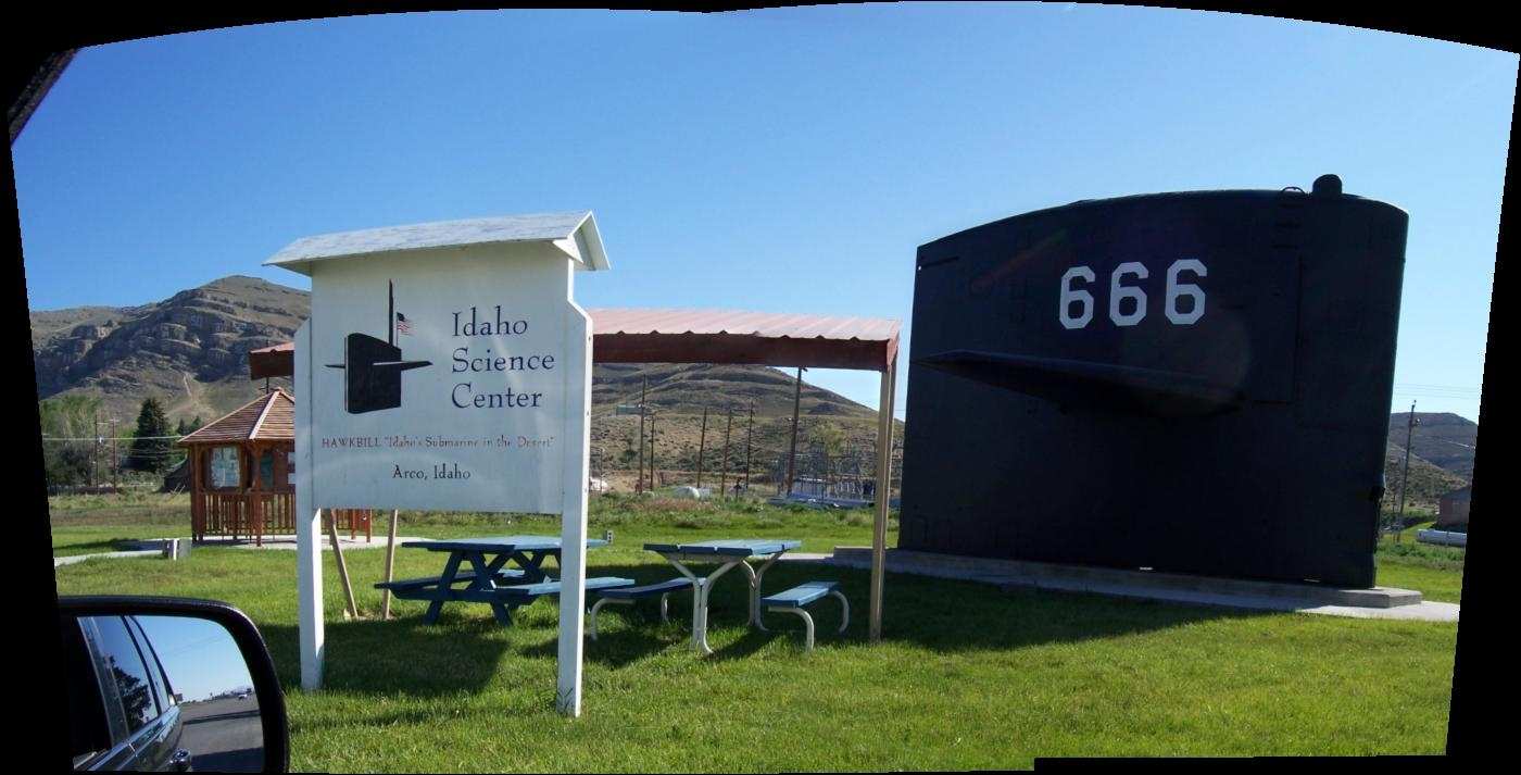 Panorama of the Hawkbill Conning tower on display in Arco, Idaho at the Idaho Science Center